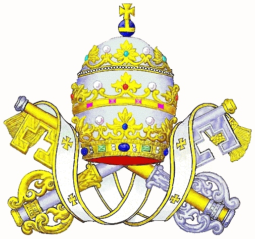 Papal emblem: triple tiara and keys